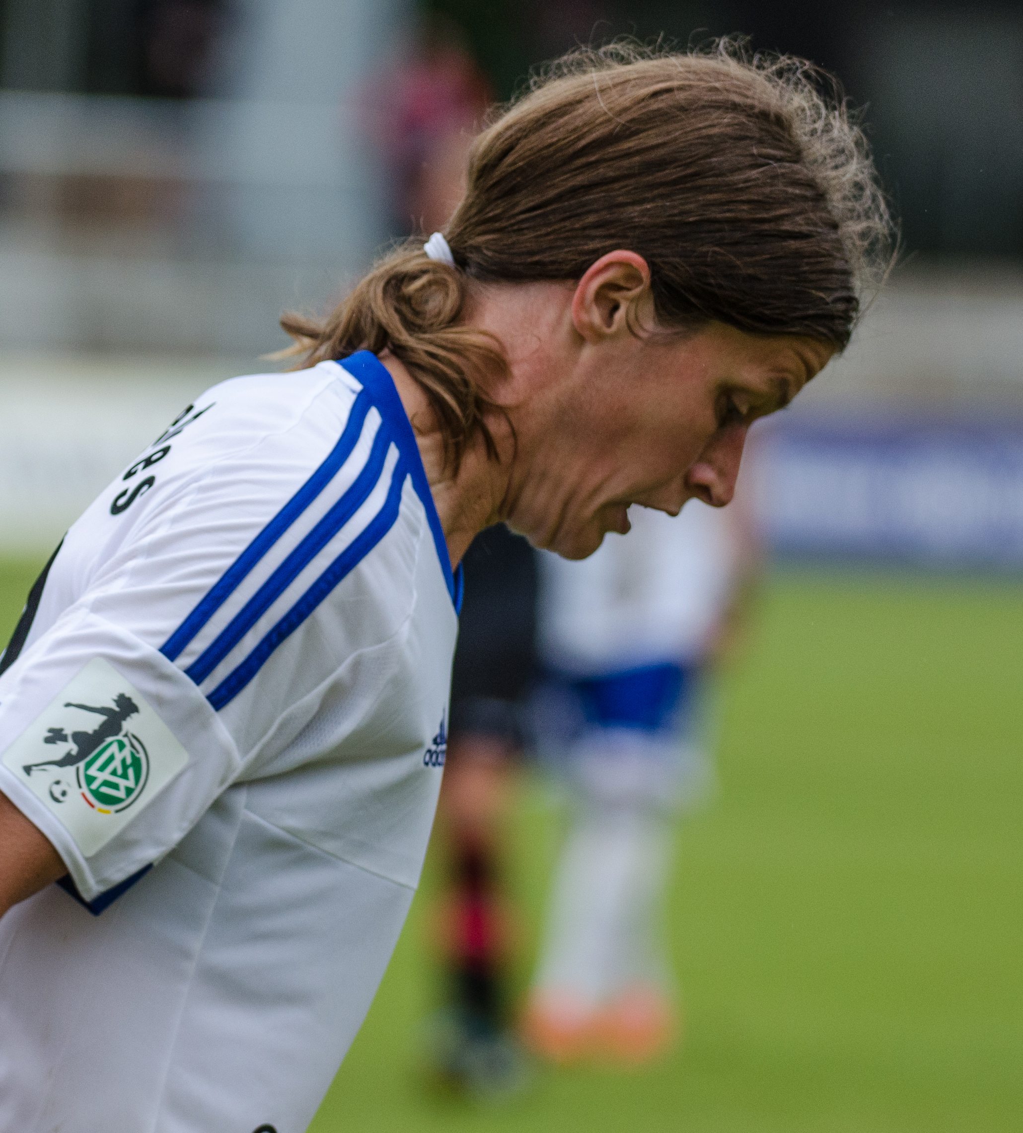 Match of the German Women's Football Bundesliga between 1.FFC Frankfurt and 1. FFC Turbine Potsdam, 2015-09-13